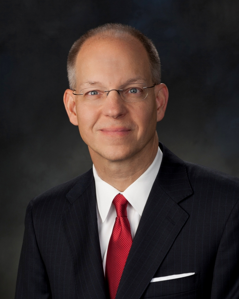 Dr. Ray O Johnson, Senior Vice President and Chief Technology Officer of the Lockheed Martin Corporation. Picture taken in 2011.